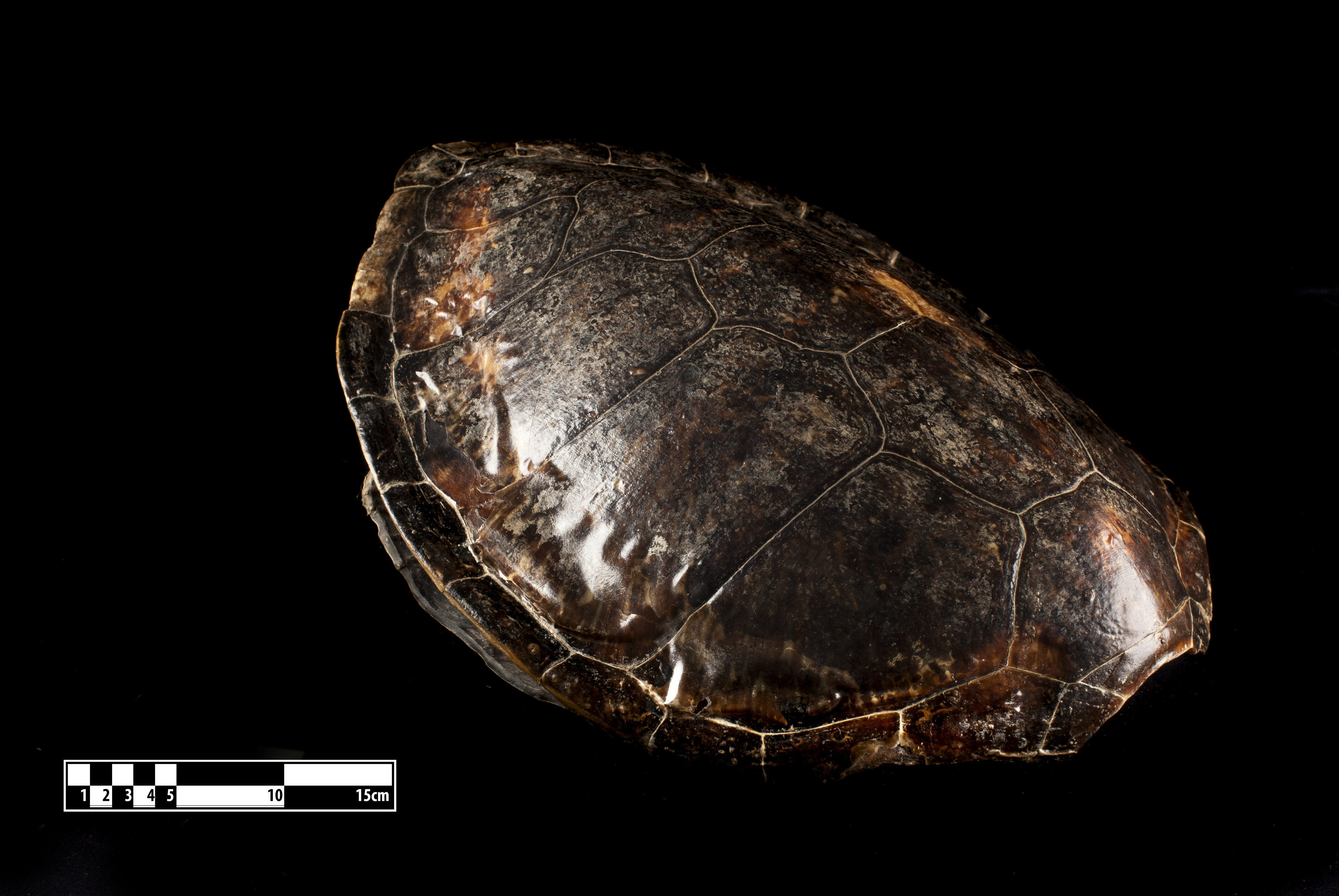 Turtle shell (Chelonia mydas). Taxidermy of a turtle shell on display at the Museum of Veterinary Anatomy FMVZ USP. This file was published as the result of a partnership between the Museum of Veterinary Anatomy FMVZ USP, the RIDC NeuroMat and the Wikimedia Community User Group Brasil. This GLAM project is reported. Photography: Museum of Veterinary Anatomy FMVZ USP. Author: Wagner Souza e Silva.